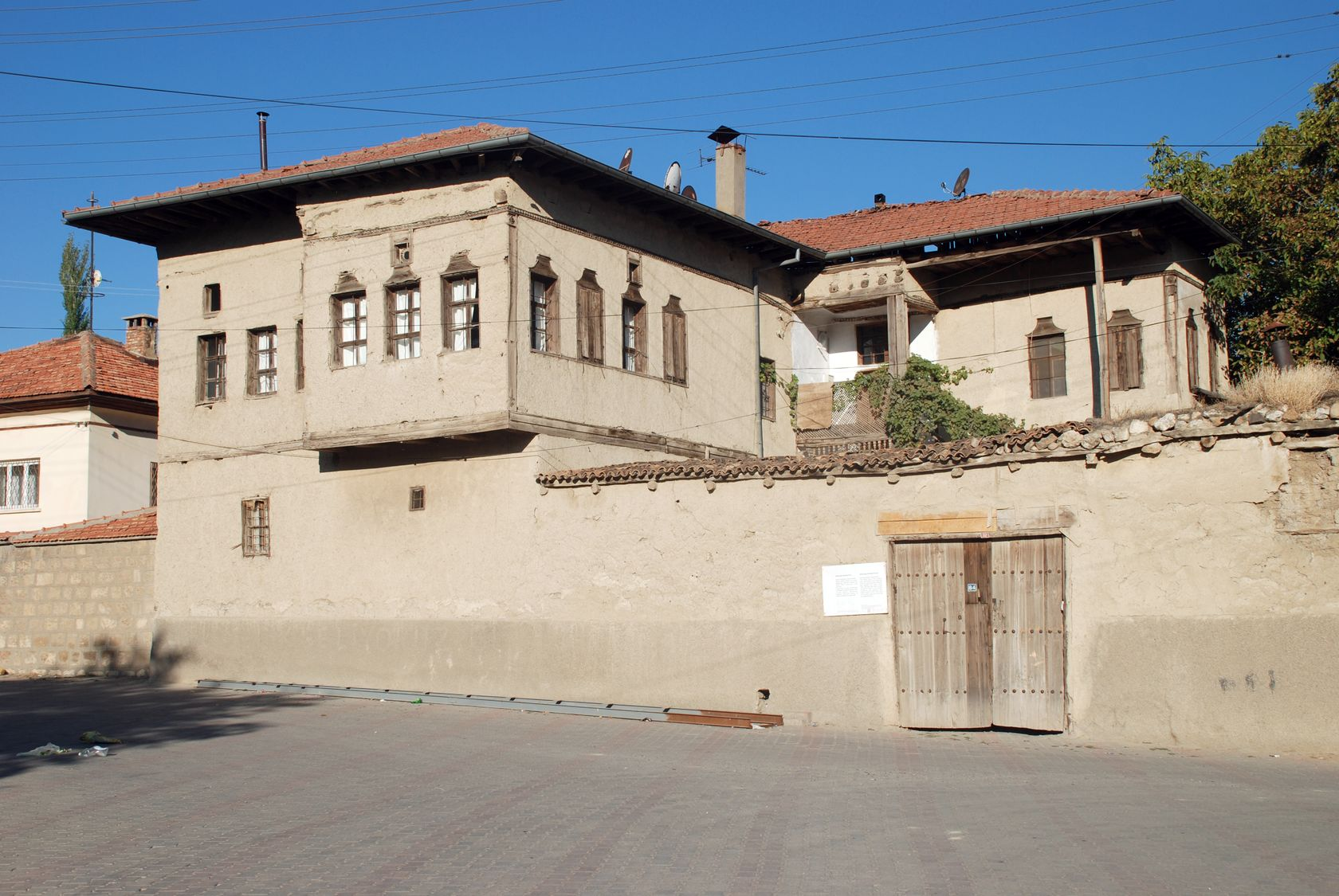 Divriği, Sivas province, Hafislioğlu Ebubekir Evi